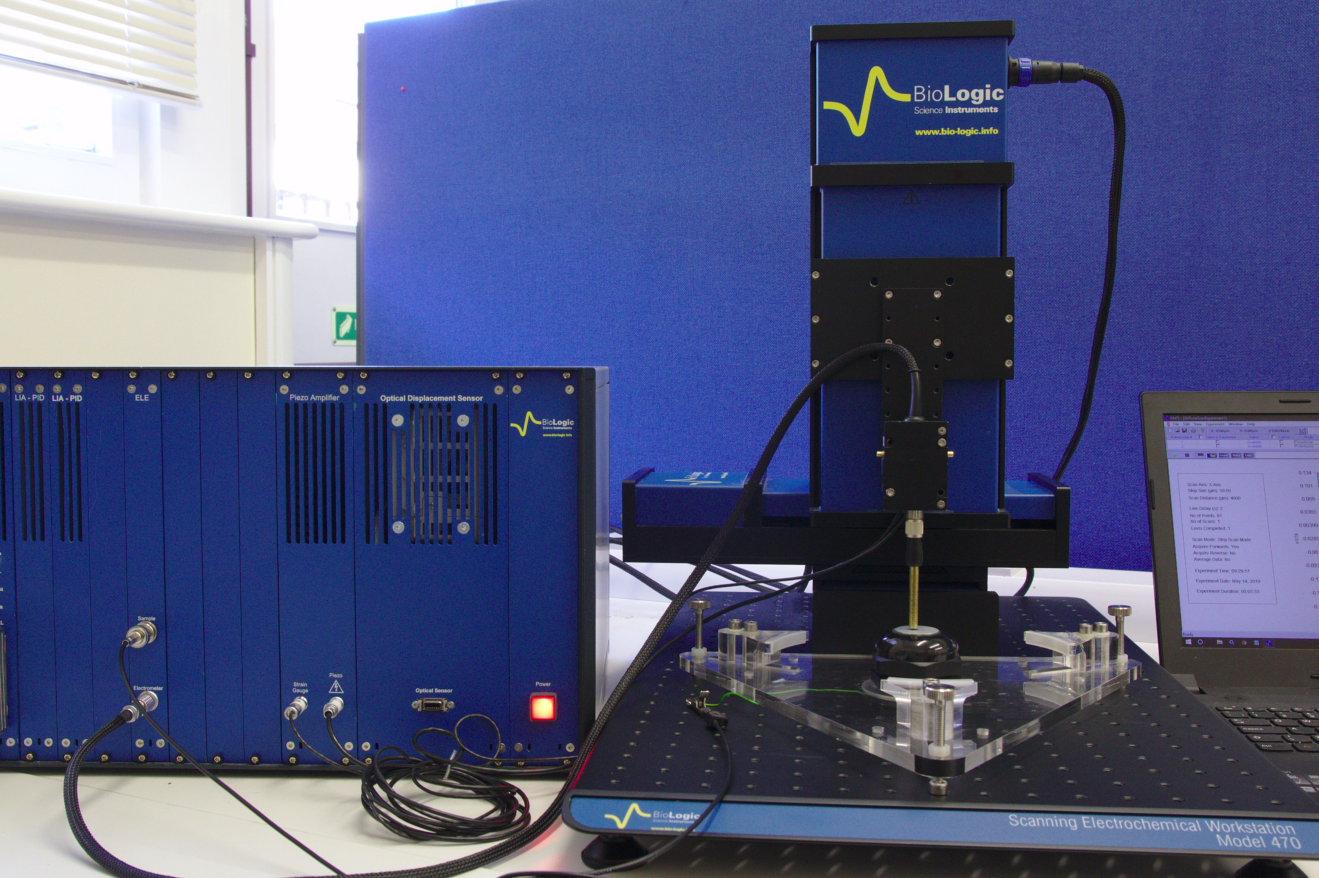 a typical Scanning Kelvin Probe (SKP) instrument is shown. On the left is the control unit containing lock-in amplifiers. On the right is the x, y, and z scanning axis with the vibrator, electrometer, and measurement probe mounted.